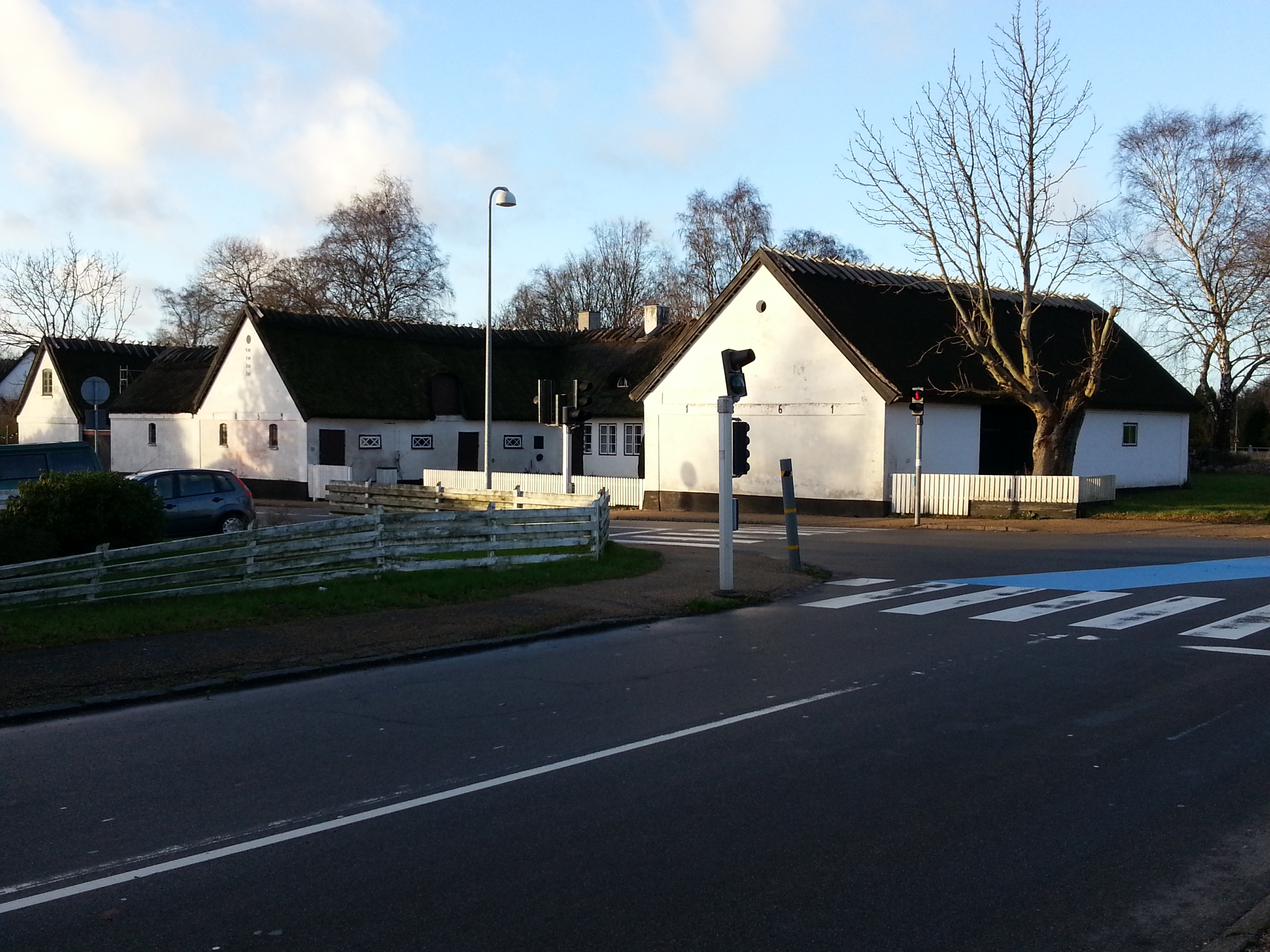 Old farm in Mørdrup (Espergærde), Denmark 6